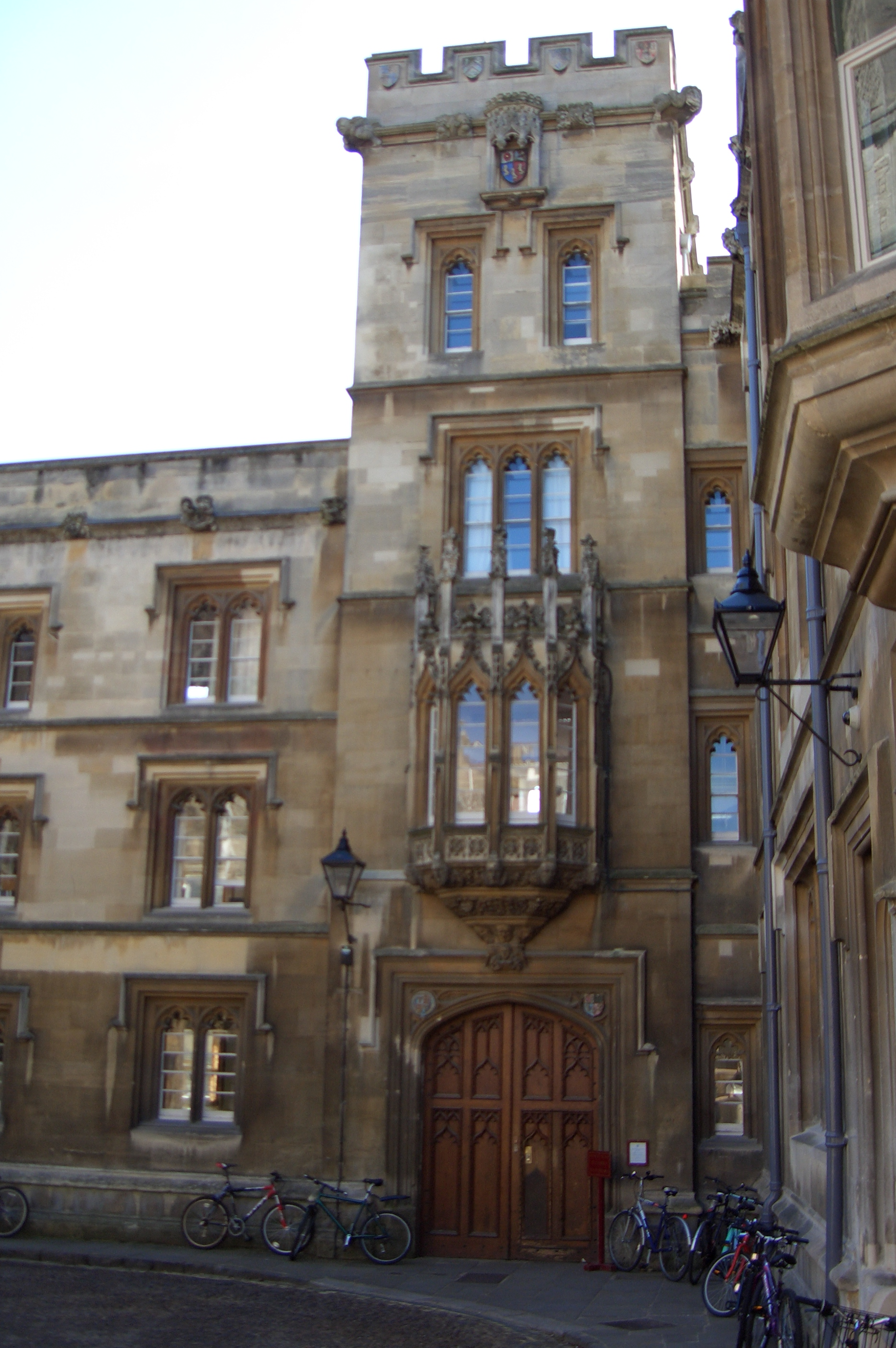 Entrance to Pembroke College, Pembroke Square, Oxford, seen from the north